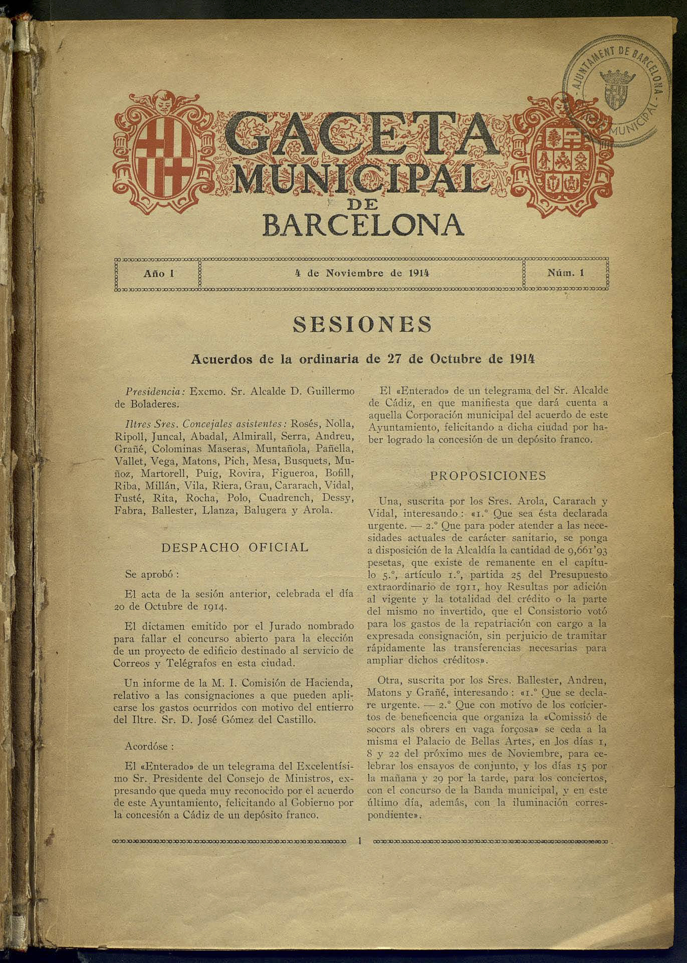 en: (Barcelona), Catalonia: Header of the first copy of the Gaseta Municipal de Barcelona